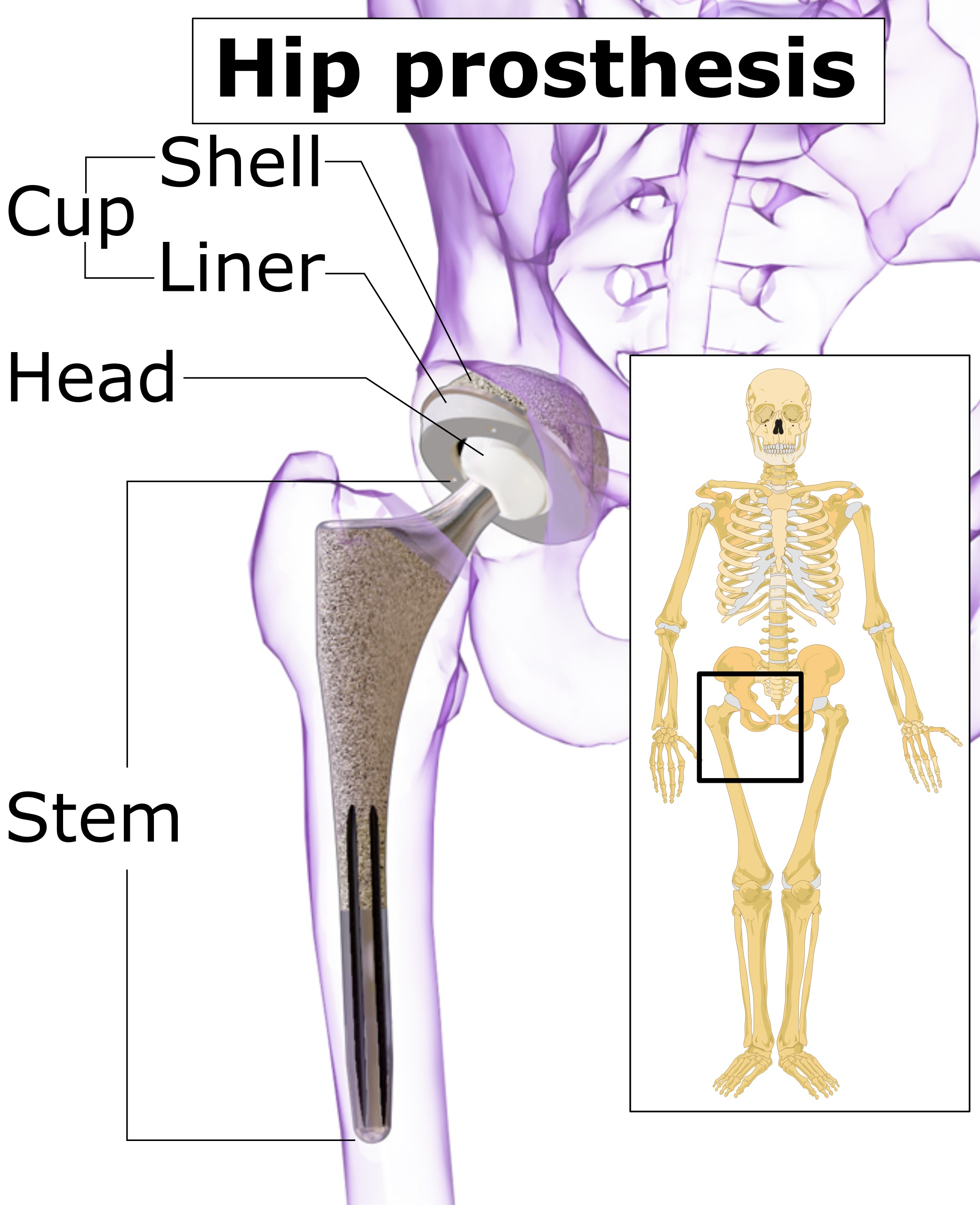 Components of a hip prosthesis